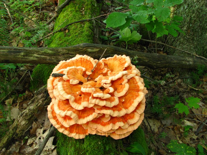 Laetiporus cincinnatus ((Morgan) Burdsall, Banik, & Volk) Location: Strouds Run State Park, Athens, Ohio, USA Notes: I did not get a shot, but the pores were whitish rather than yellow.Laetiporus cincinnatus is the correct name according to Tom Volk’s web site. Lincoff calls it Laetiporus sulphureus var. semialbinus in the National Audubon field guide.Laetiporus cincinnatus and Laetiporus sulphureus var. semialbinus are synonyms.